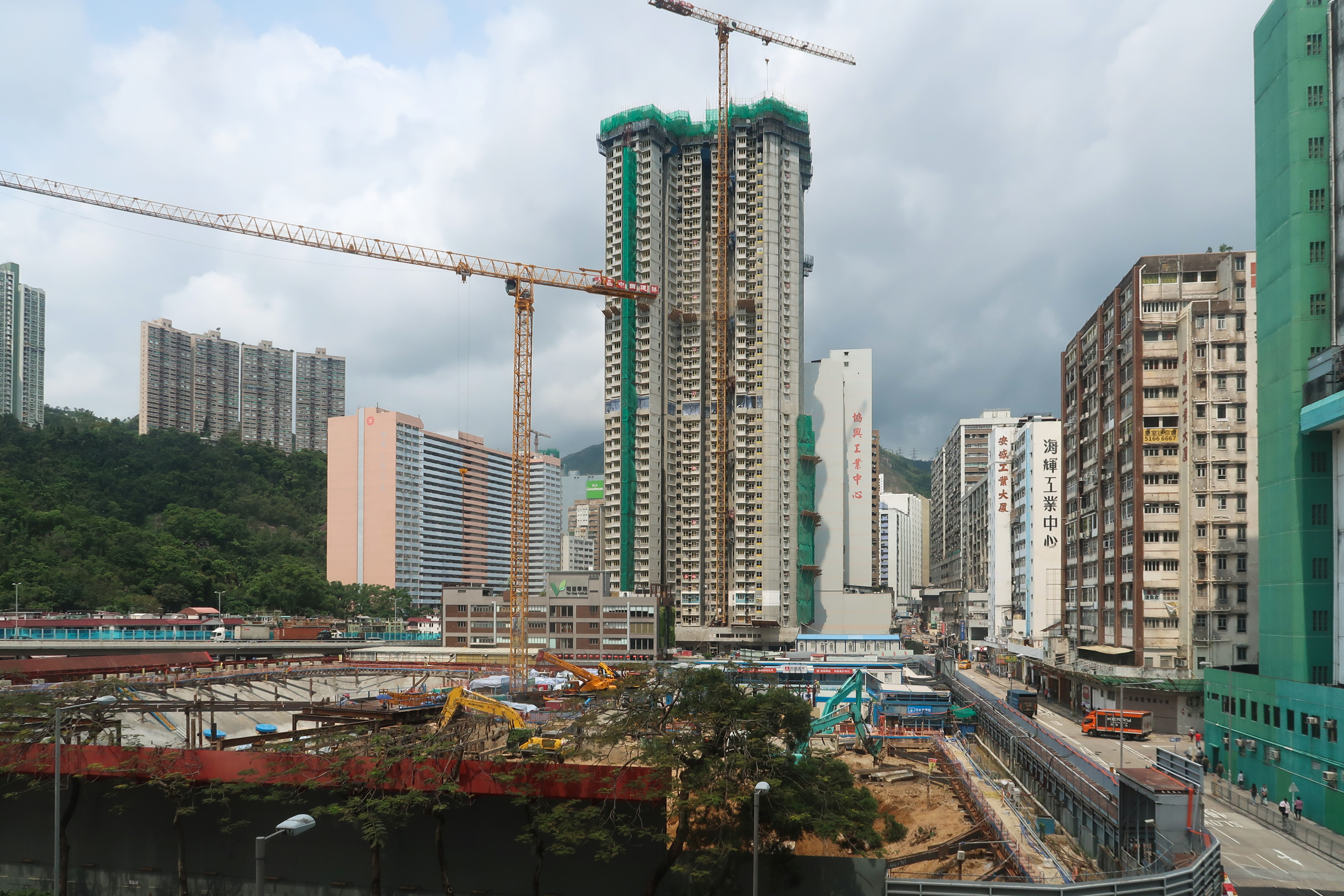 Fo Tan Centralcon Investment Site and Yuk Wo Court Site